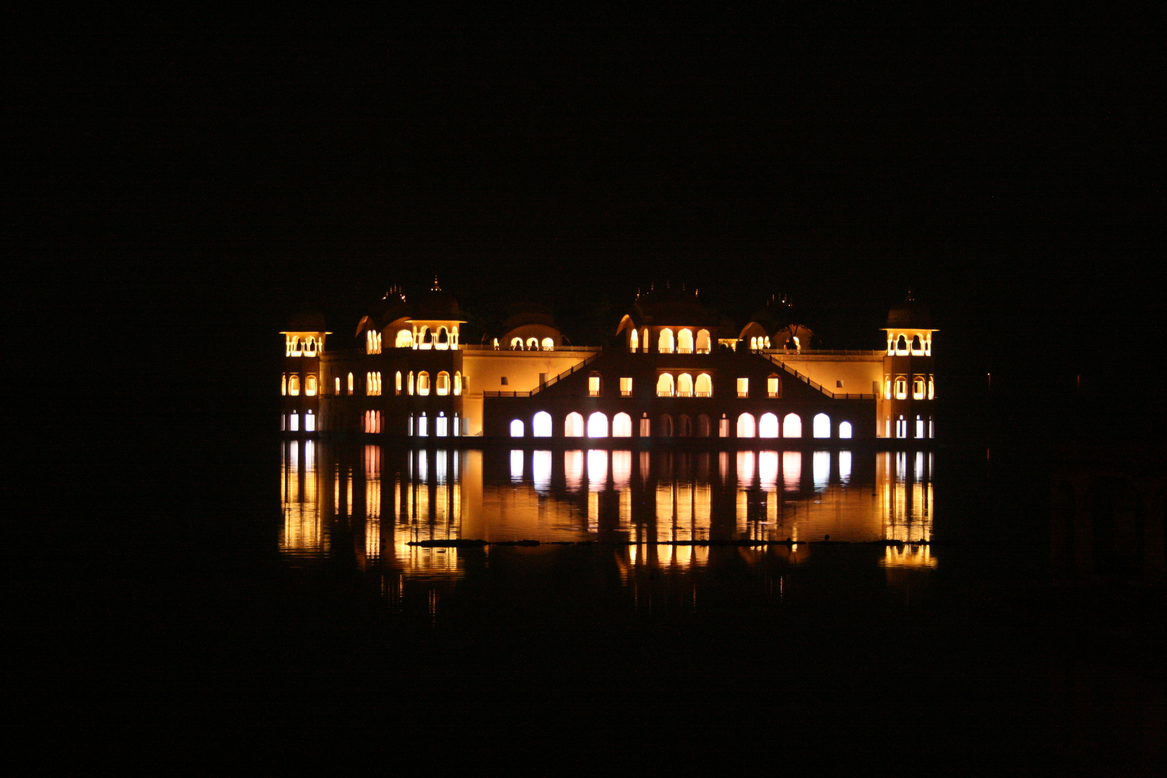 Jal Mahal or Water Palace, Jaipur, North India